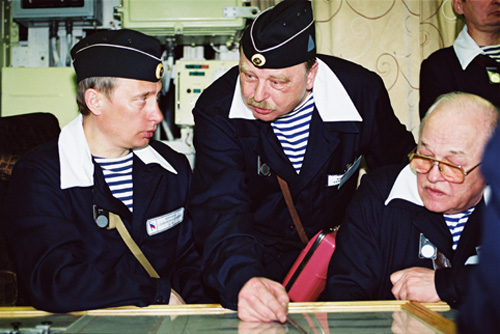 THE BARENTS SEA. The strategic missile submarine Karelia. With Defence Minister Igor Sergeyev (right) and Commander of the Northern Fleet Vyacheslav Popov.